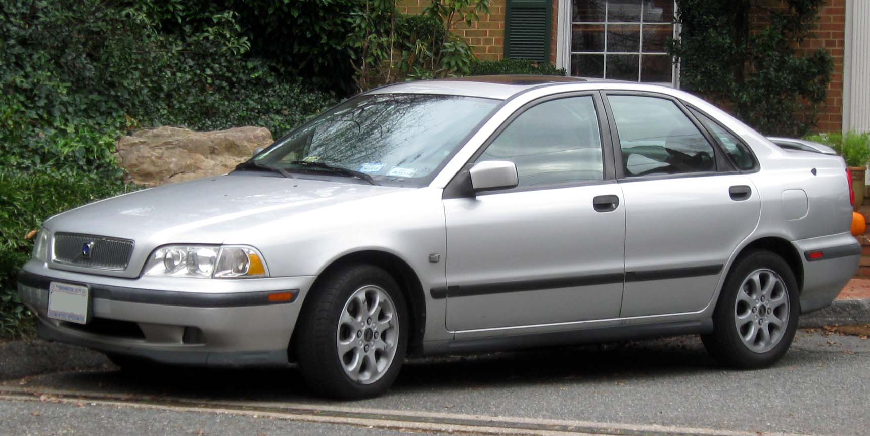 2000-2002 Volvo S40 photographed in Washington, D.C., USA.